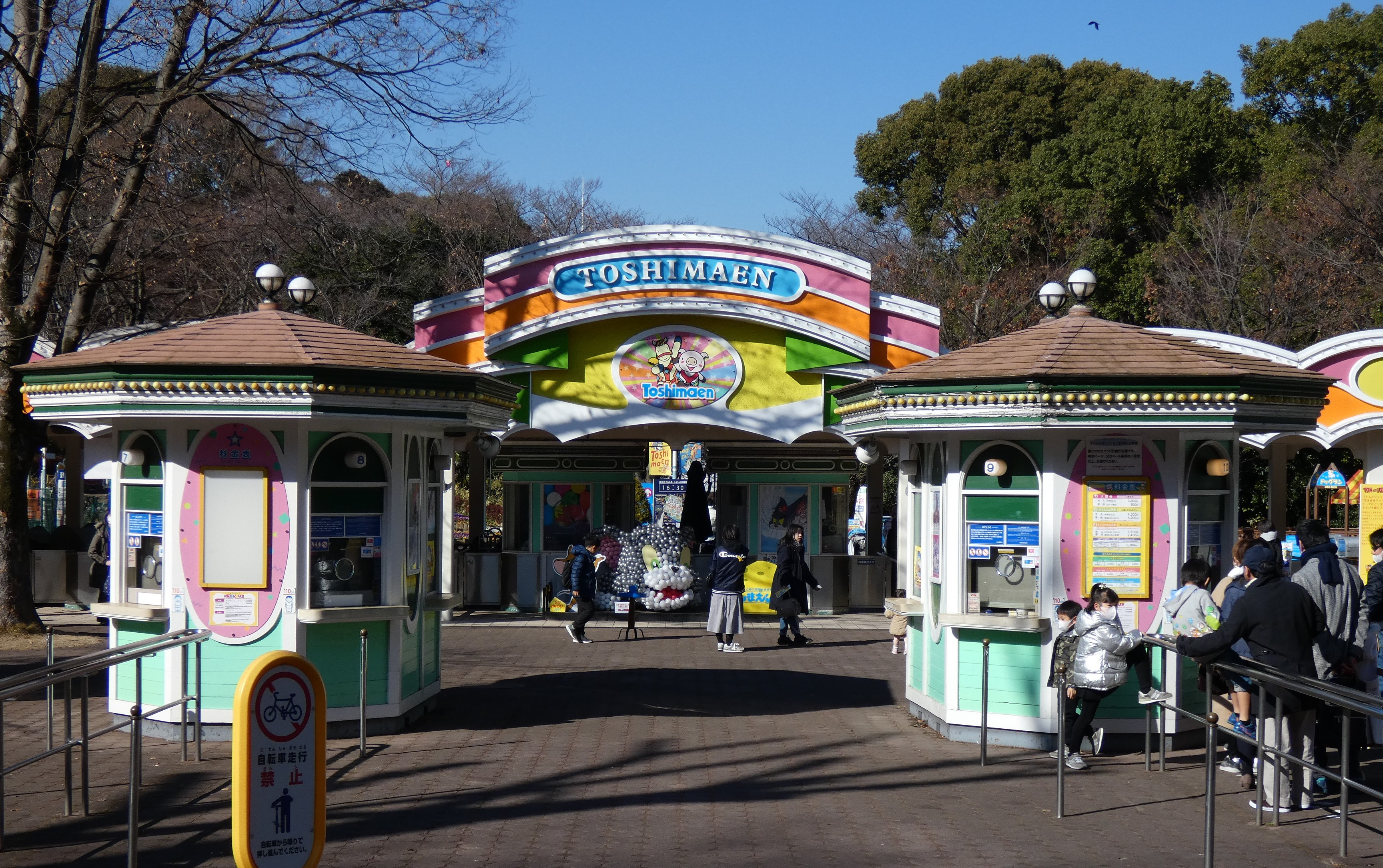 Toshimaen main gate (Amusement park in Tokyo, Japan)